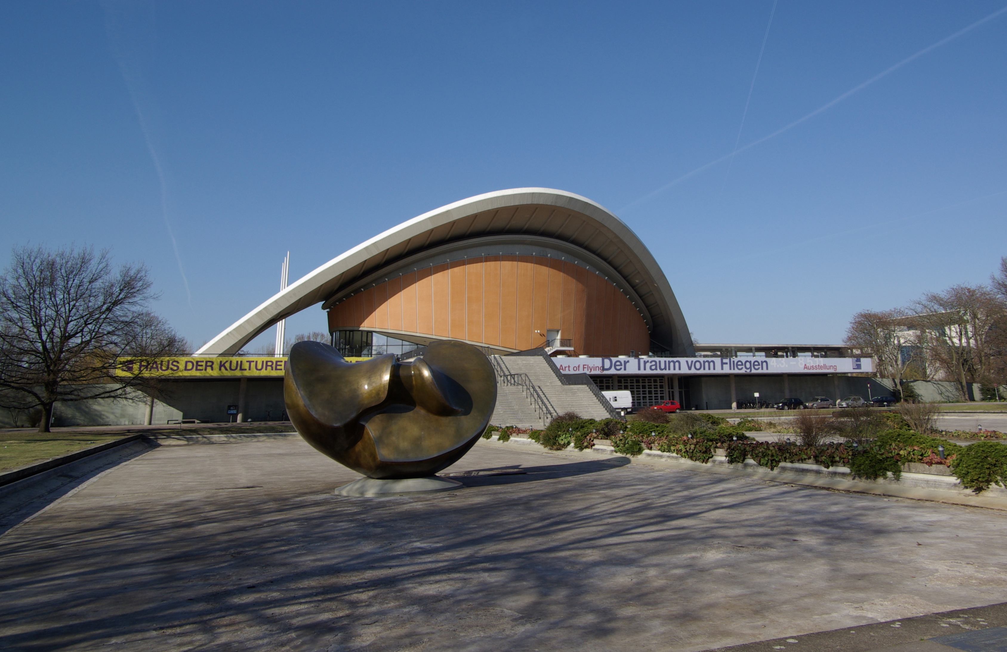 Berlin, Haus der Kulturen der Welt, formerly known as Kongresshalle